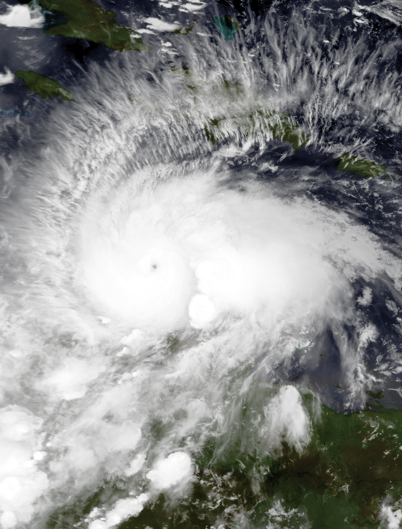 Hurricane Matthew at peak strength in the Caribbean Sea on October 1, 2016.